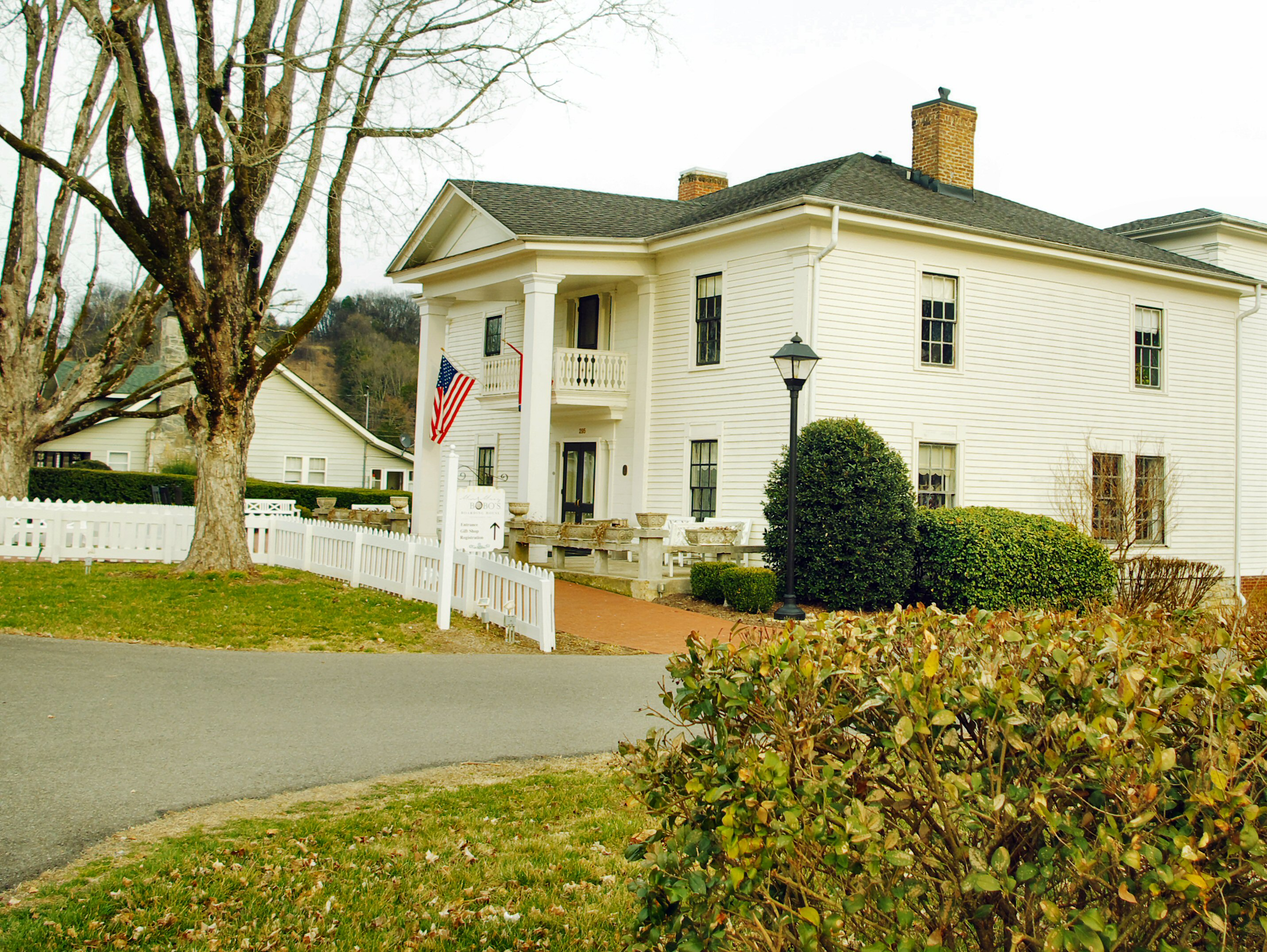 The Bobo Hotel (now a restaurant) in Lynchburg, Tennessee, United States